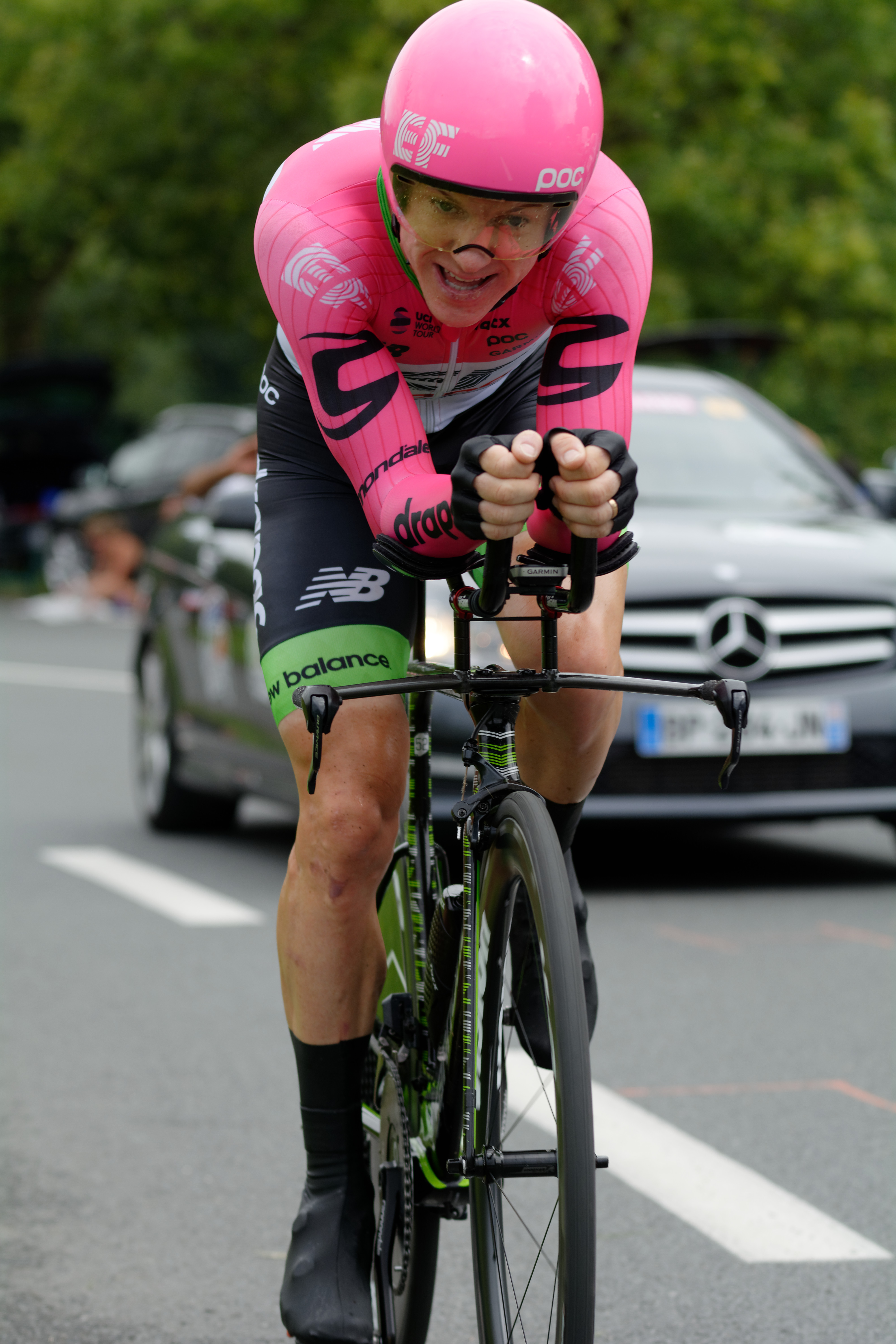 2018 Tour de France